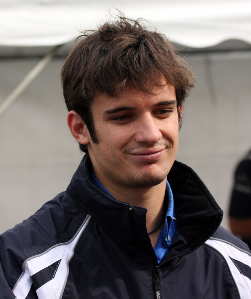 Sergio Hernández (Proteam Motorsport), at the 2008 WTCC Race of Japan.